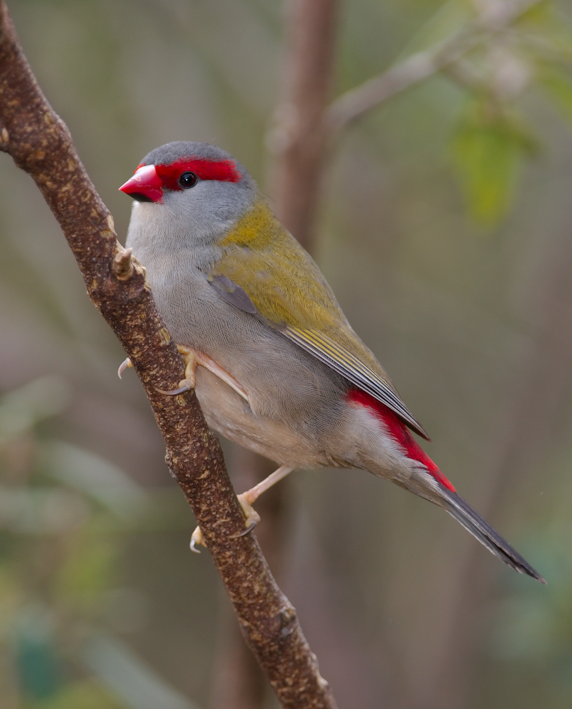 Red-browed Finch (Neochmia temporalis), Cleland Wildlife Park, near Mount Lofty, Adelaide, South Australia.